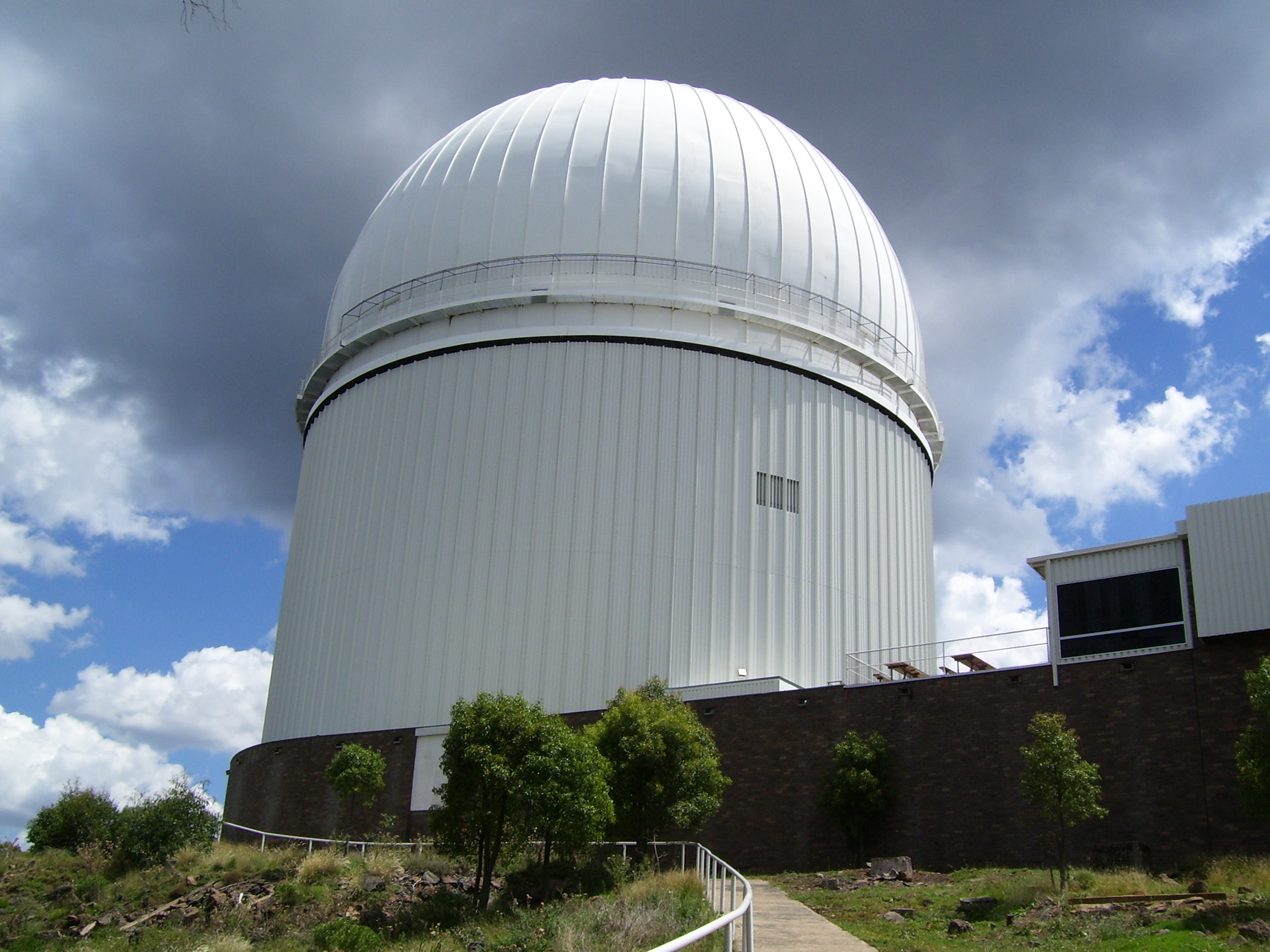 Dome of the Anglo-Australian Telescope.